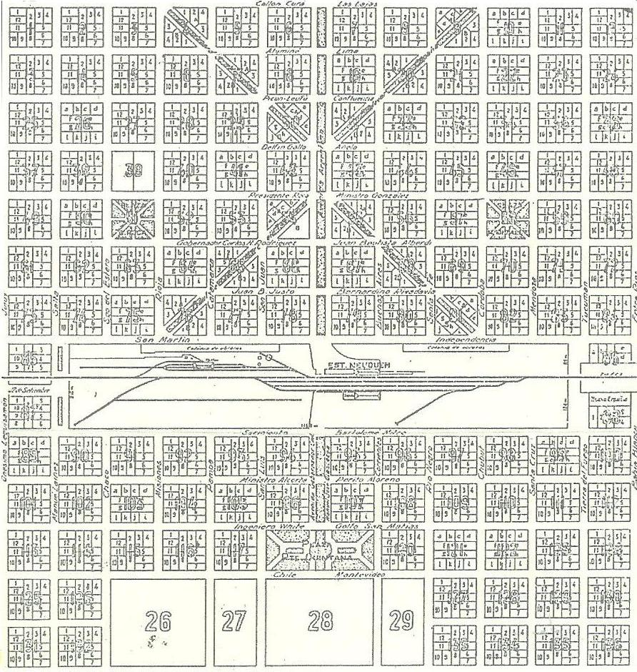 First map of the city of Neuquén, Argentina .